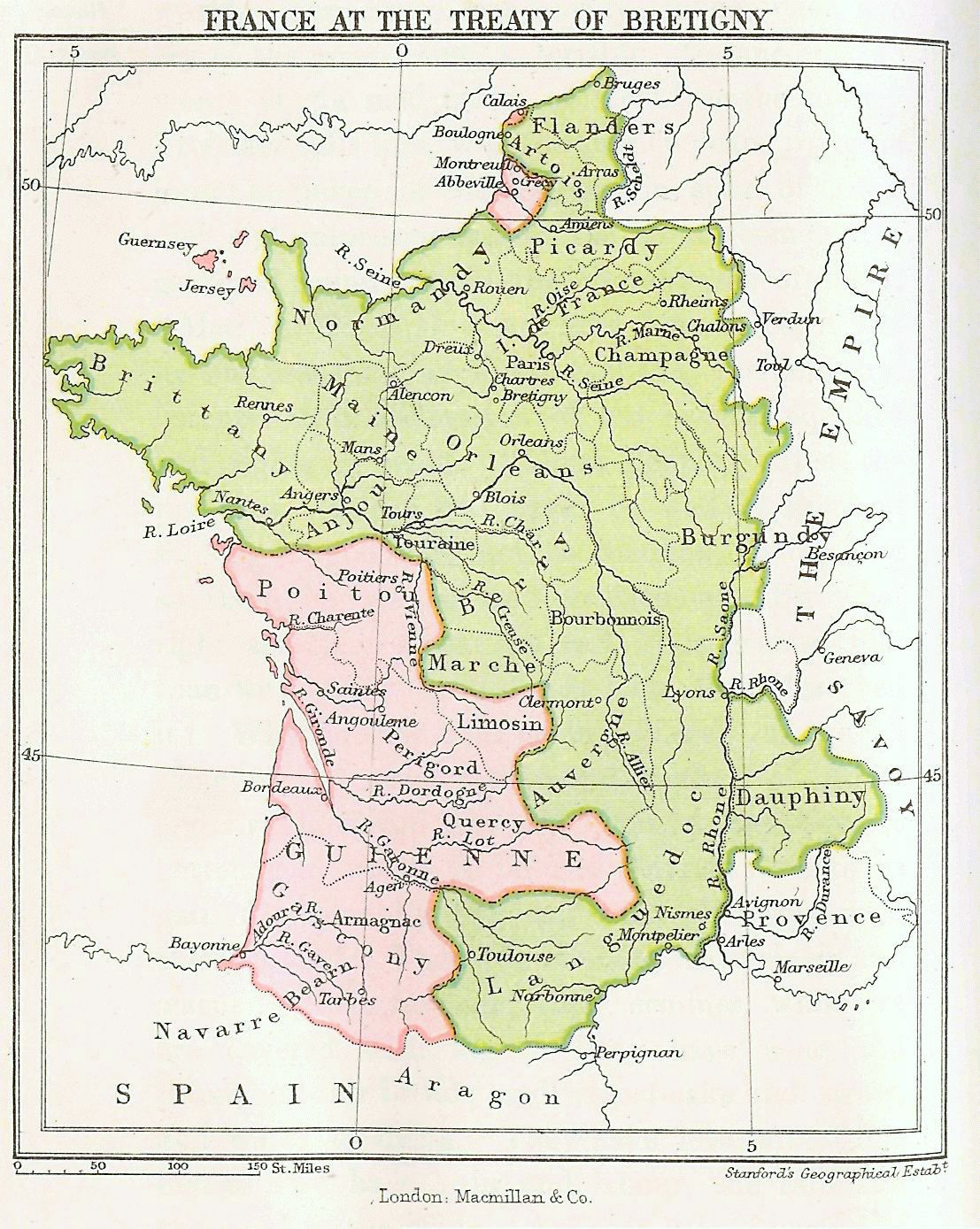 Map showing France at the time of the Treaty of Bretigny.